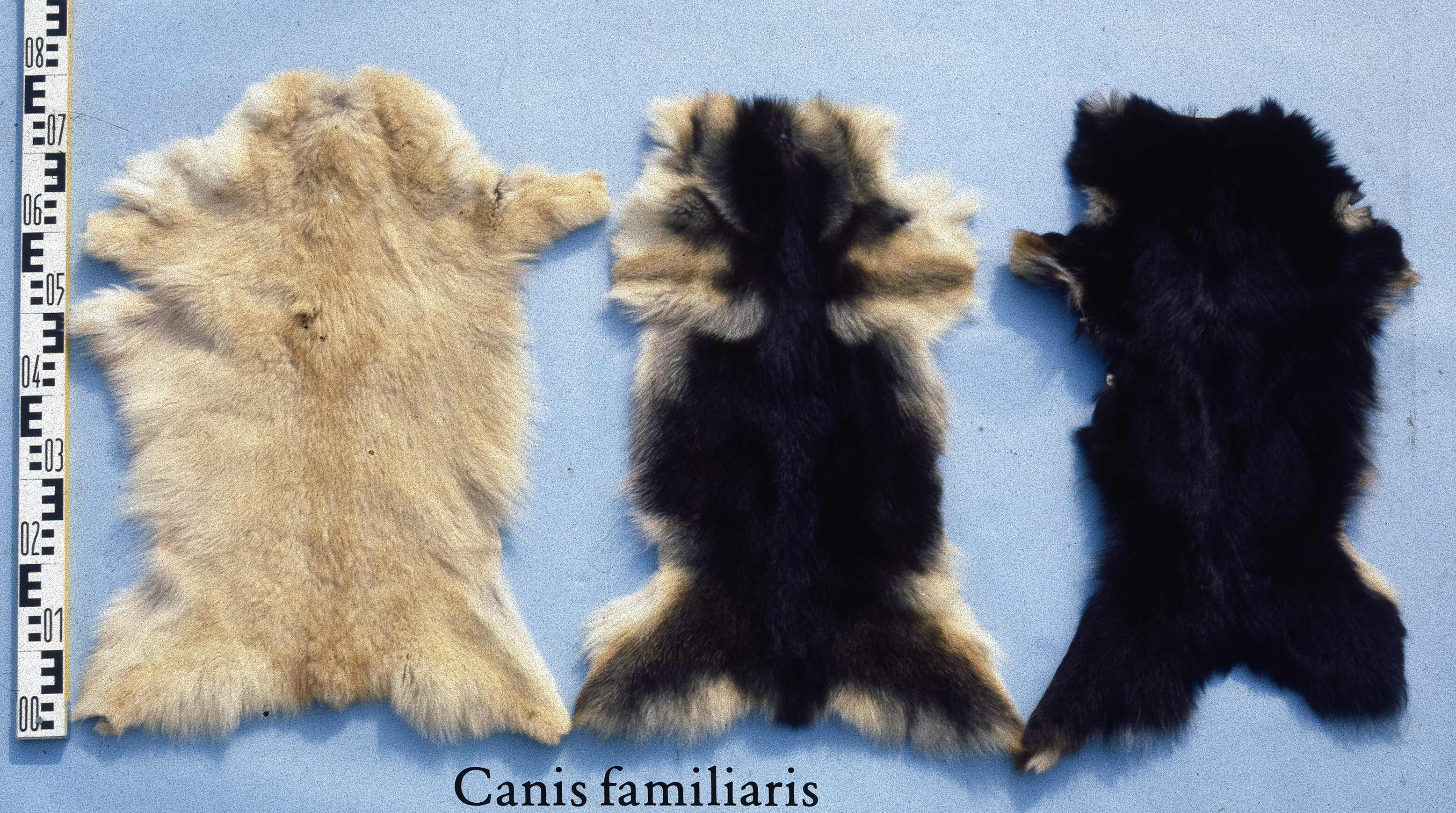 Feral dogs fur skins of Korea, China (Canis lupus familiaris). Fur skin collection, Bundes-Pelzfachschule, Frankfurt/Main, Germany